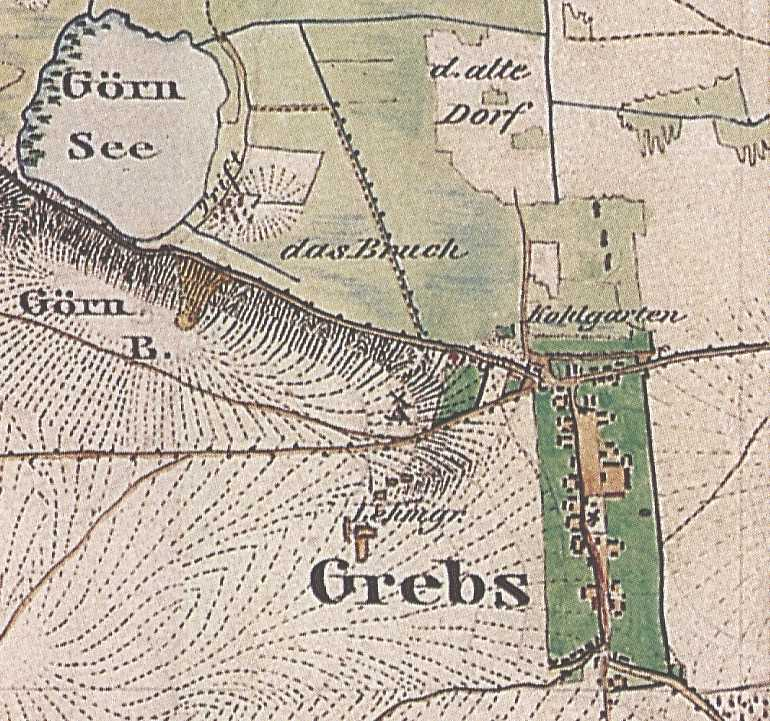 Grebs, Gem. Kloster Lehnin, Lkr. Potsdam-Mittelmark, Brandenburg, Germany, Detail from the Urmesstischblatt Sheet 3641 Göttin, drawn in 1842